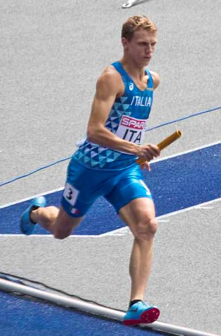 Vladimir Aceti in 2018.